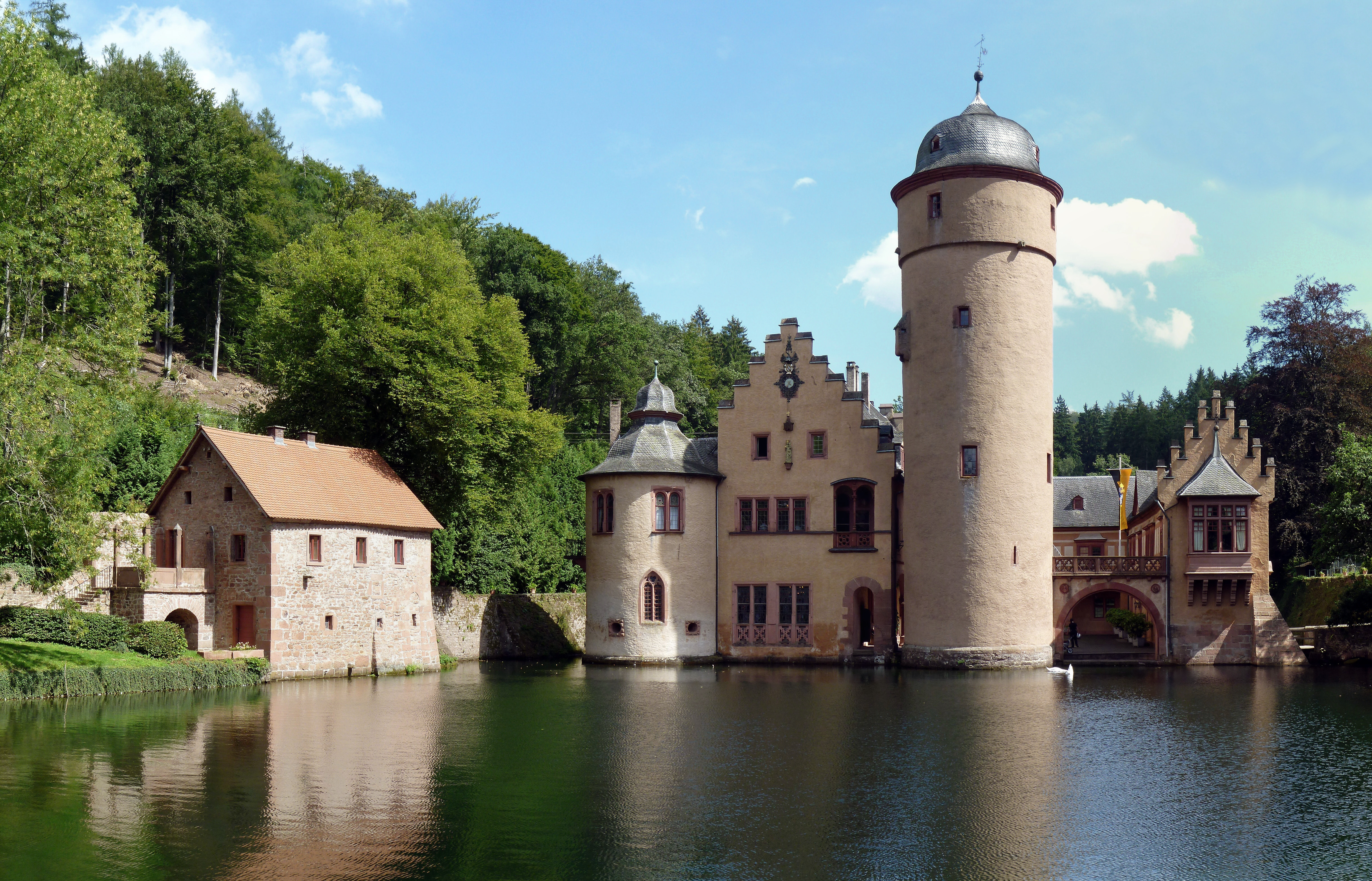 The Mespelbrunn Castle, a moated castle on the territory of the town of Mespelbrunn, is situated remotely in the Elsava valley in the Spessart (between Frankfurt and Würzburg). Since the early 15th century it has been owned by the family Echter of Mespelbrunn. The oldest parts were built in 1427, the current appearance was created from 1551 to 1569. The castle was location of the 1958 German comedy film The Spessart Inn with the the famous German cinema actress Liselotte Pulver. Consequently it gained nationwide popularity. It is one of the most visited moated castles in Germany and is frequently featured in tourist books. The annual numbers of visitors are just under 100,000.